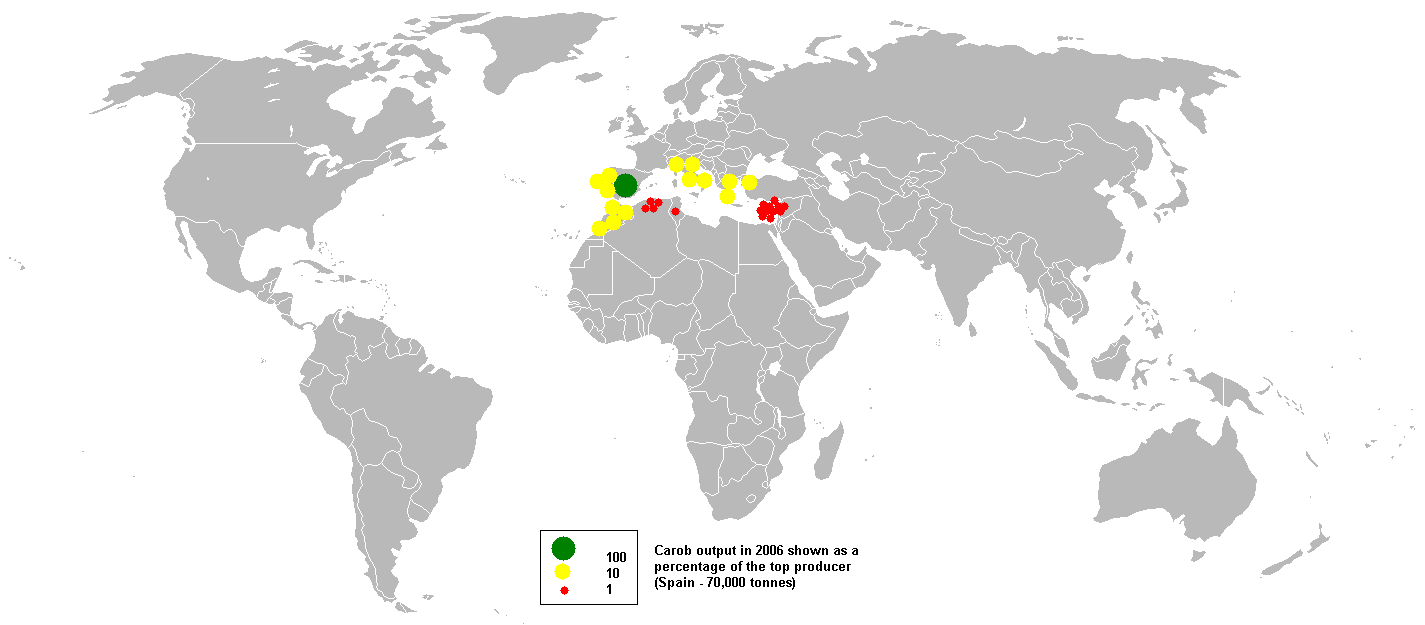 This bubble map shows the global distribution of carob output in 2006 as a percentage of the top producer (Spain - 70,000 tonnes). This map is consistent with incomplete set of data too as long as the top producer is known. It resolves the accessibility issues faced by colour-coded maps that may not be properly rendered in old computer screens. Based on :Image:BlankMap-World.png